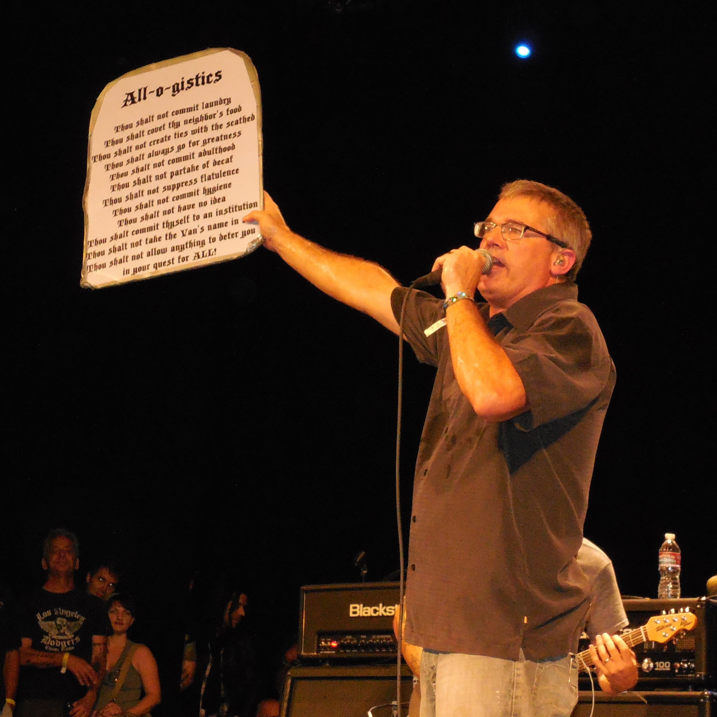 Singer Milo Aukerman of the Descendents performing at the Fox Theater in Pomona, California on September 28, 2014. Aukerman holds up a sign displaying the "All-O-Gistics" while performing the song of the same name.